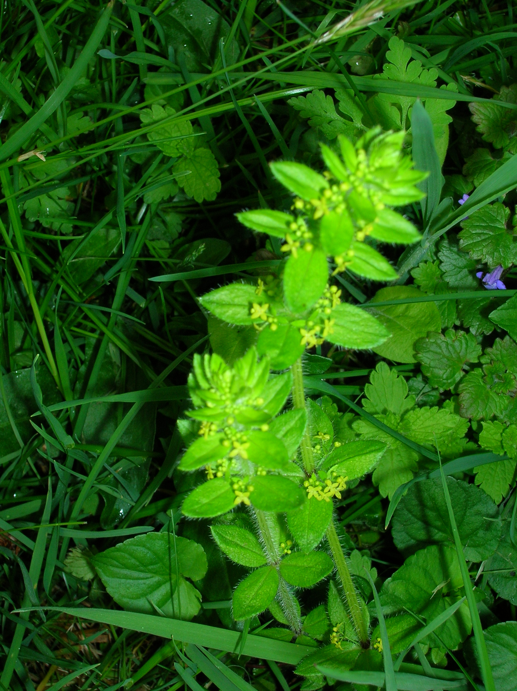 Cruciata laevipes, the Crosswort or in Gaelic the Luc na croise (Plant of the Cross). Ellisland, Nithsdale, Dumfries & Galloway, Scotland.